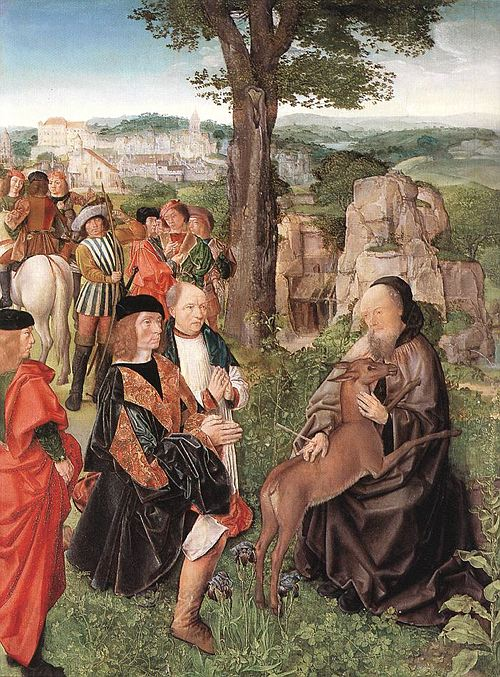 Saint Giles and the Hind